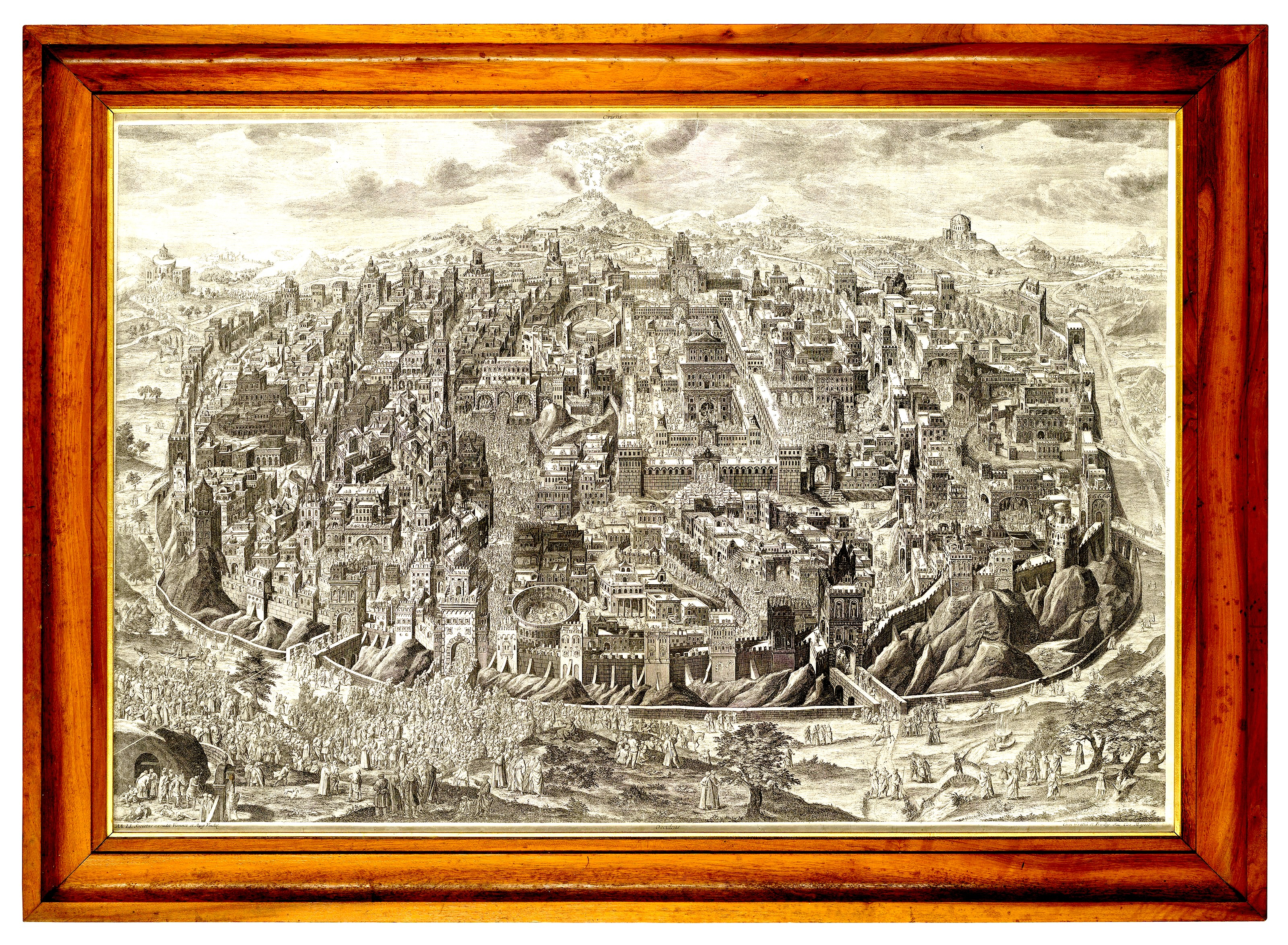 A capriccio view of Jerusalem with scenes from the Passion of Christ. 810 x 1190 mm Johann Daniel Herz (auch Hertz) war Zeichner, Kupferstecher und Verleger in seiner Heimatstadt Augsburg. Er arbeitete an zahlreichen Werken und Stichfolgen mit, am bekanntesten wurde die "Neue Reitkunst" von Johann Elias Ridinger. Unter seinem Namen und als Verlag brachte Herz zahlreiche Ornamentstiche, Heiligenbilder, Landschaften und Porträts heraus, stach Ansichten von niederösterreichischen Klöstern und in den Jahren von 1730 bis 1740 nach Aufnahmen von Franz Sebastian Rosenstingl eine Folge der österreichischen Servitenklöster. Herz starb in Augsburg.